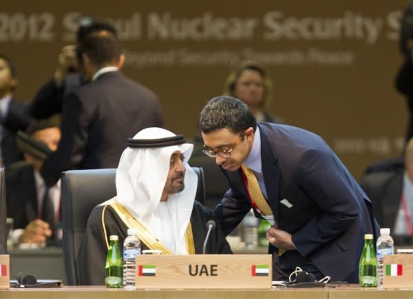 This photo illustrates Sheikh Mohammed bin Zayed representing UAE in Nuclear Secureity Summit 2012 held in South korea